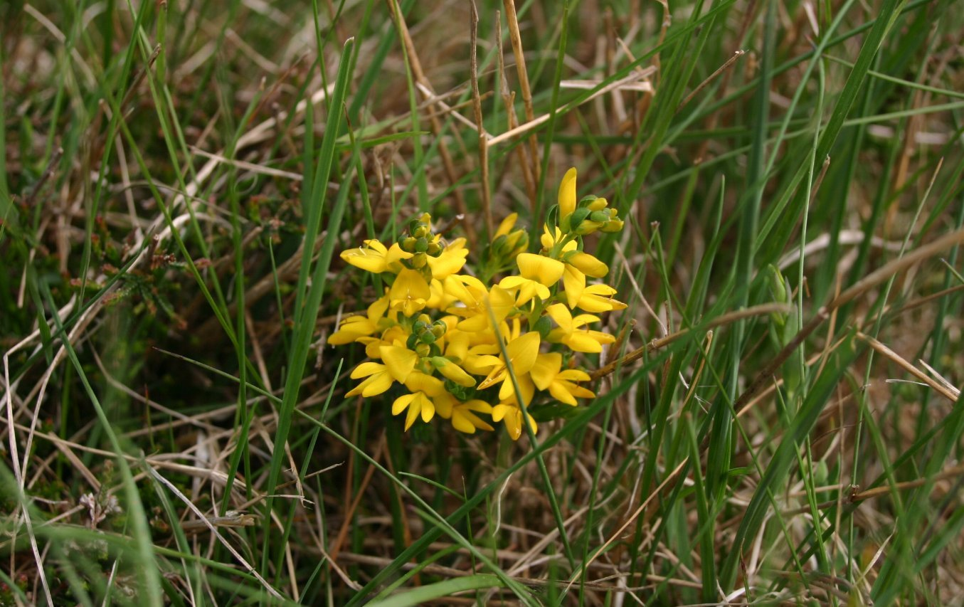 Genista anglica subsp. anglica: Flower head